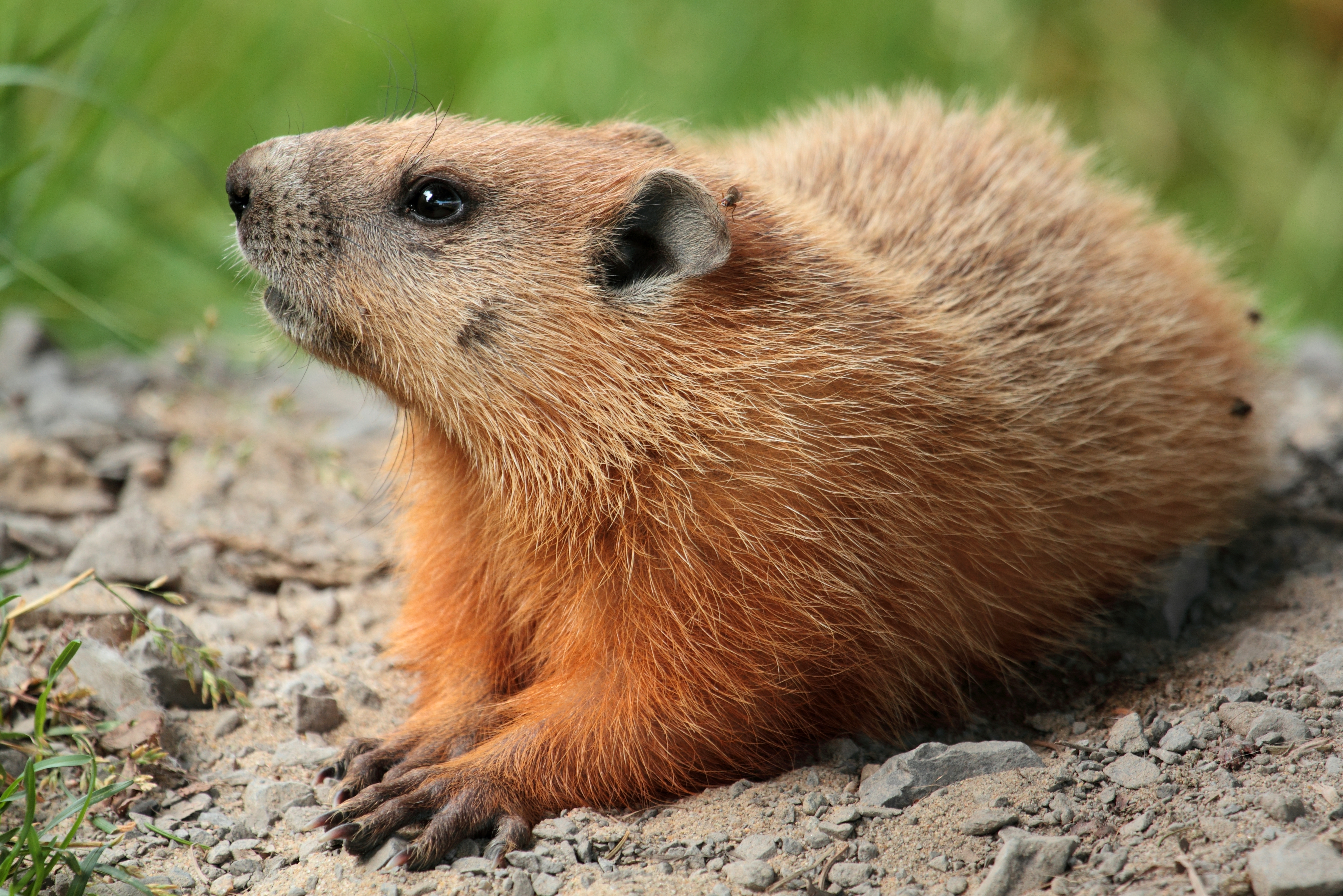 Groundhog on Laval University campus, Quebec, Canada